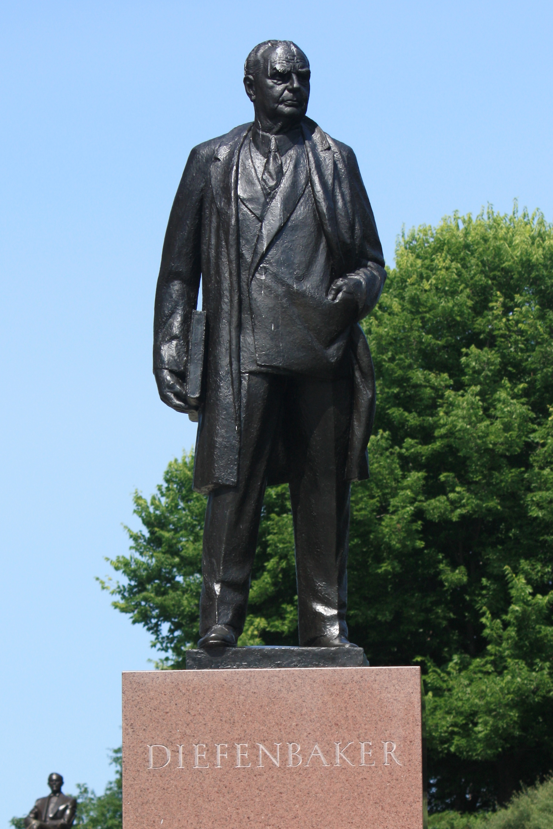 Statue of John Diefenbaker on Parliament Hill, Ottawa, Canada